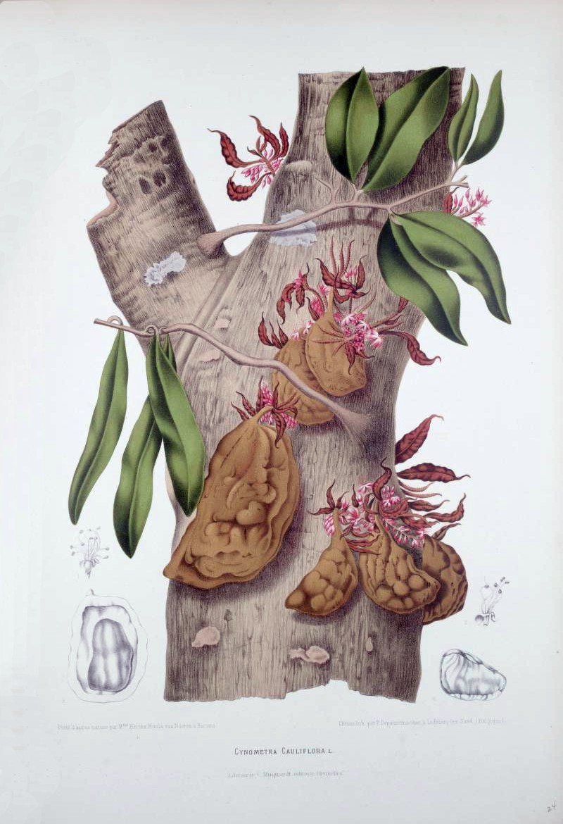 Cynometra cauliflora L. from "Fleurs, Fruits et Feuillages Choisis de l'Ile de Java" [Selected Flowers, Fruit and Foliage from the Island of Java]